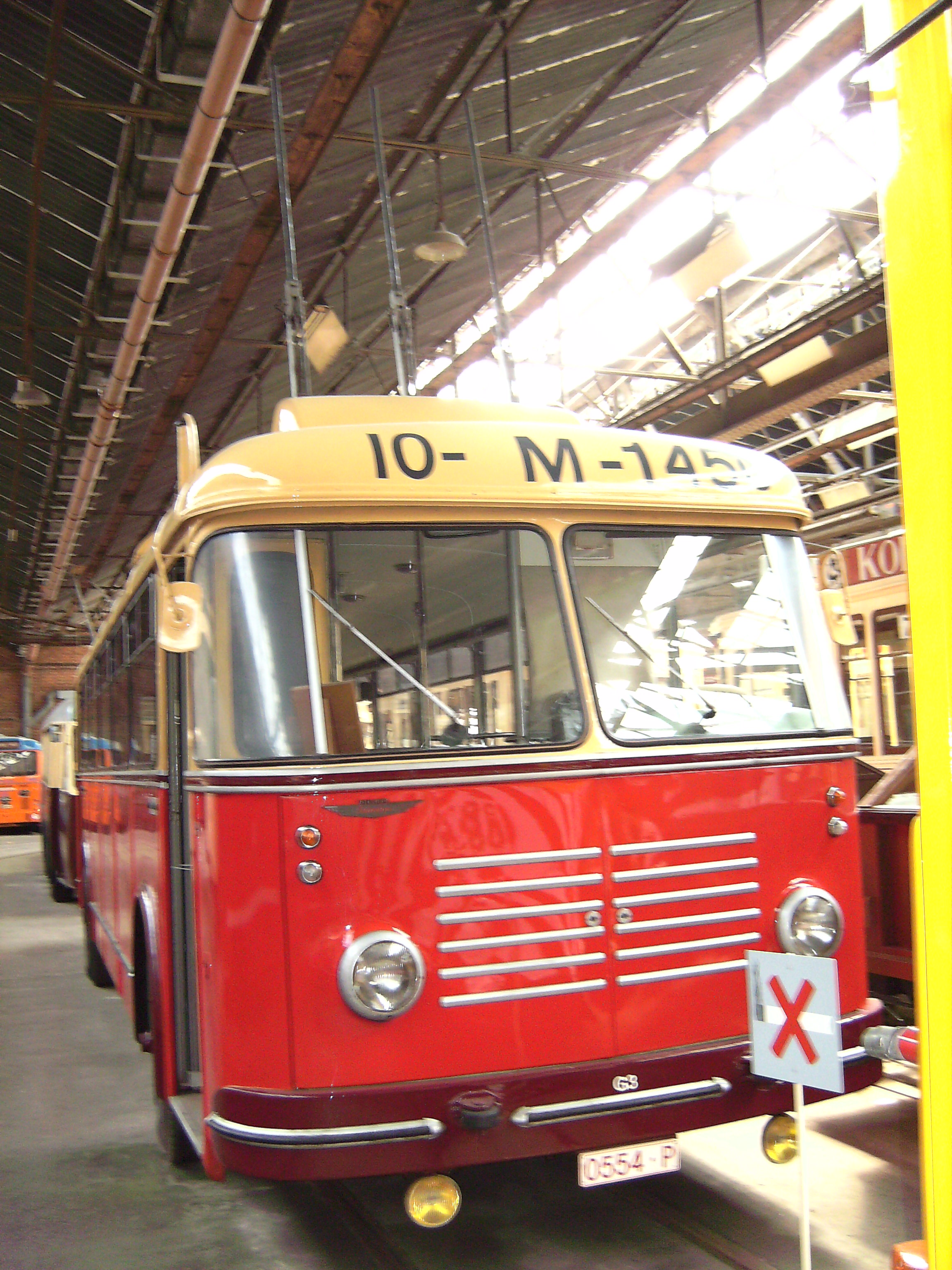 Gyrobus G3, the only surviving gyrobus in the world (build in 1955 in the Flemish tamway and bus museum, Antwerp.